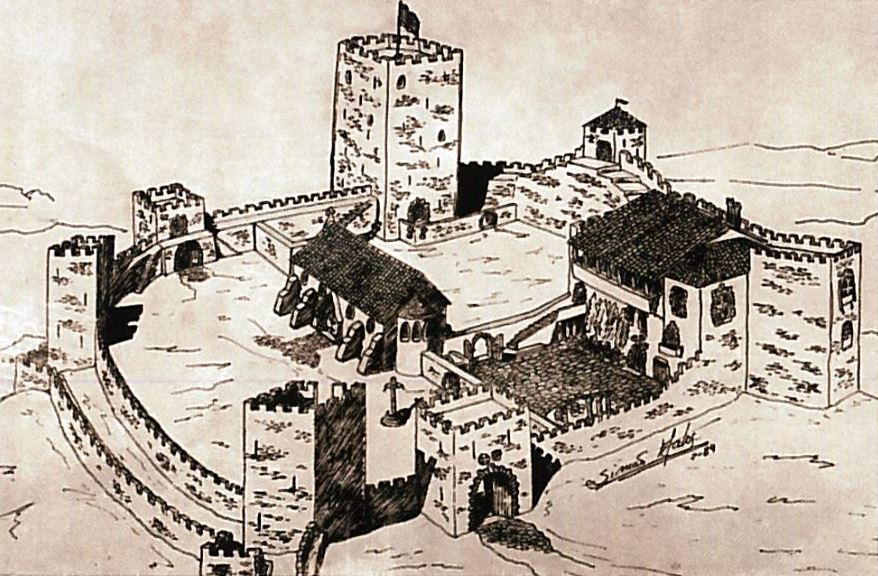 Reconstituição do castelo